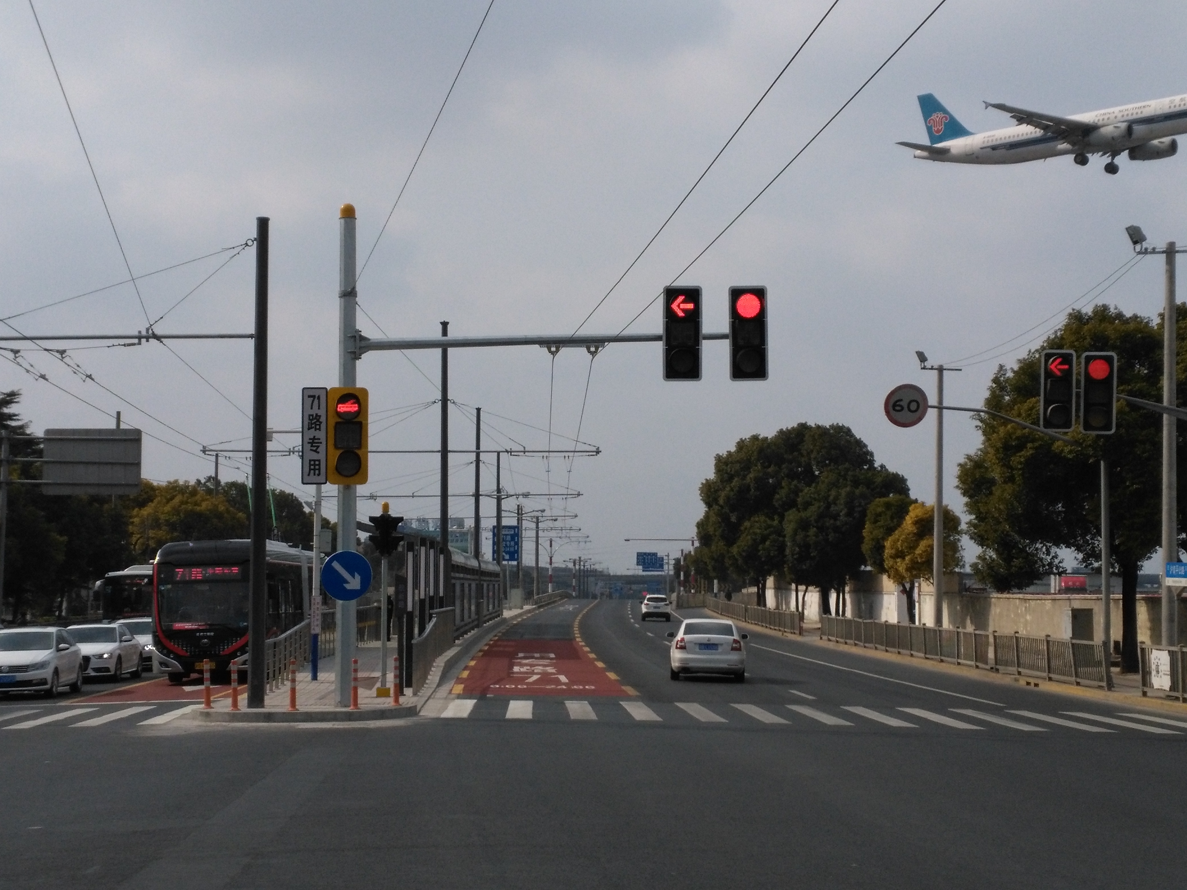 Huqingping Highway (A part of National Highway 318, China) at Hangxin Road (Luzhaiyan), Xinhong, Minhang, Shanghai.